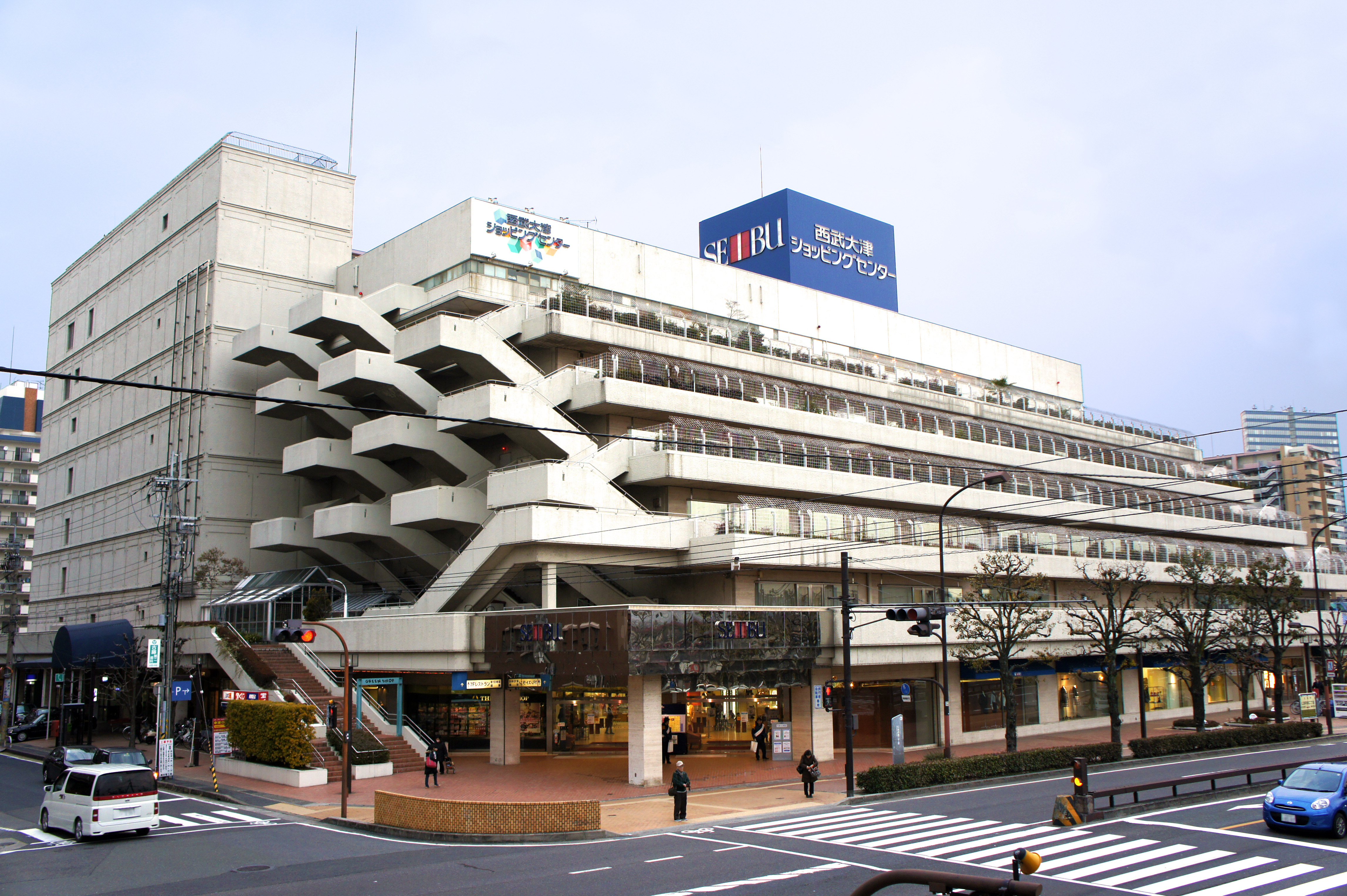 Seibu Otsu, 2-3-1 Nionohama Otsu-City Shiga JAPAN.